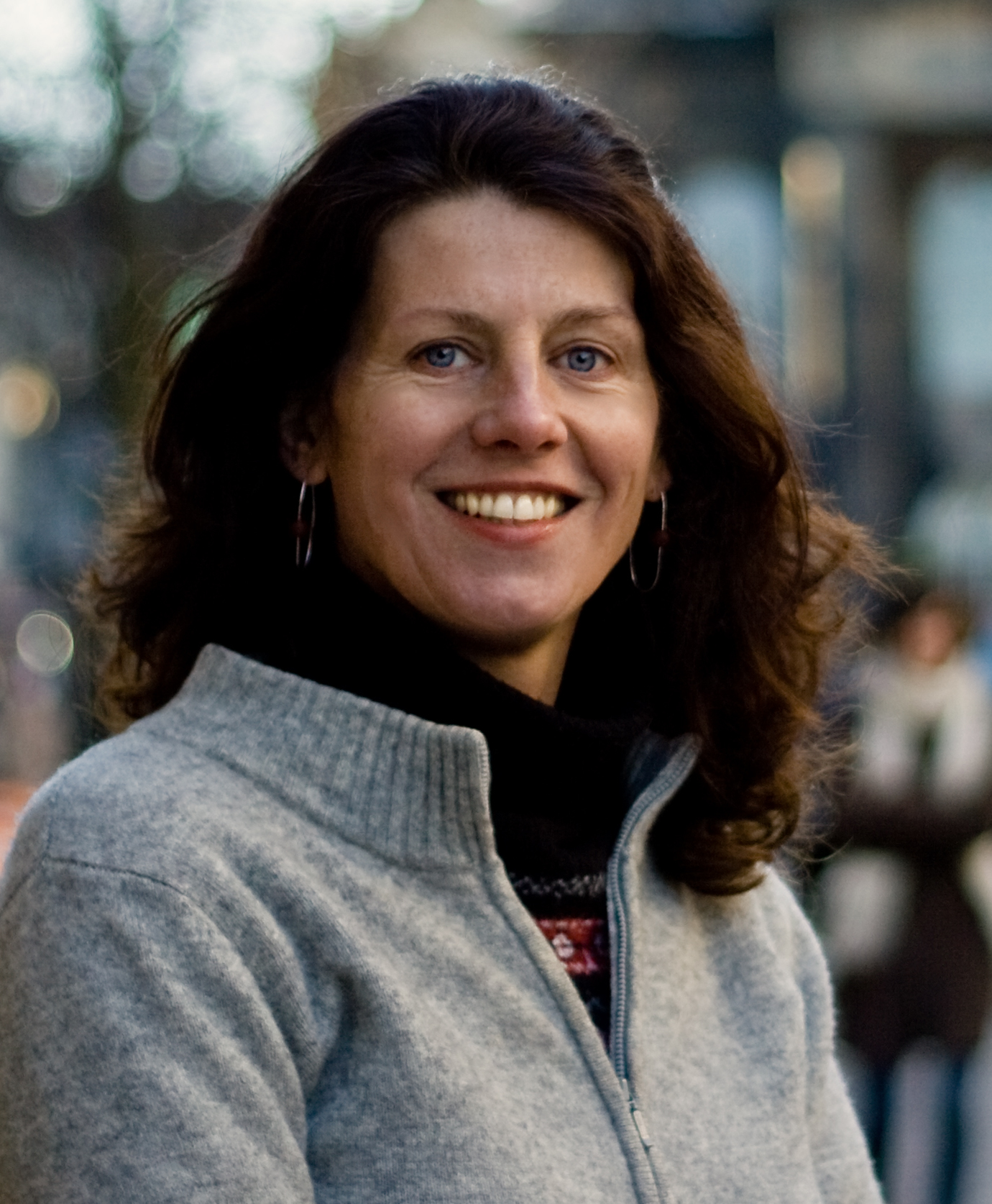 Gina Dowding, Green Party Candidate for Lancaster and Fleetwood, in Market Square, Lancaster, UK